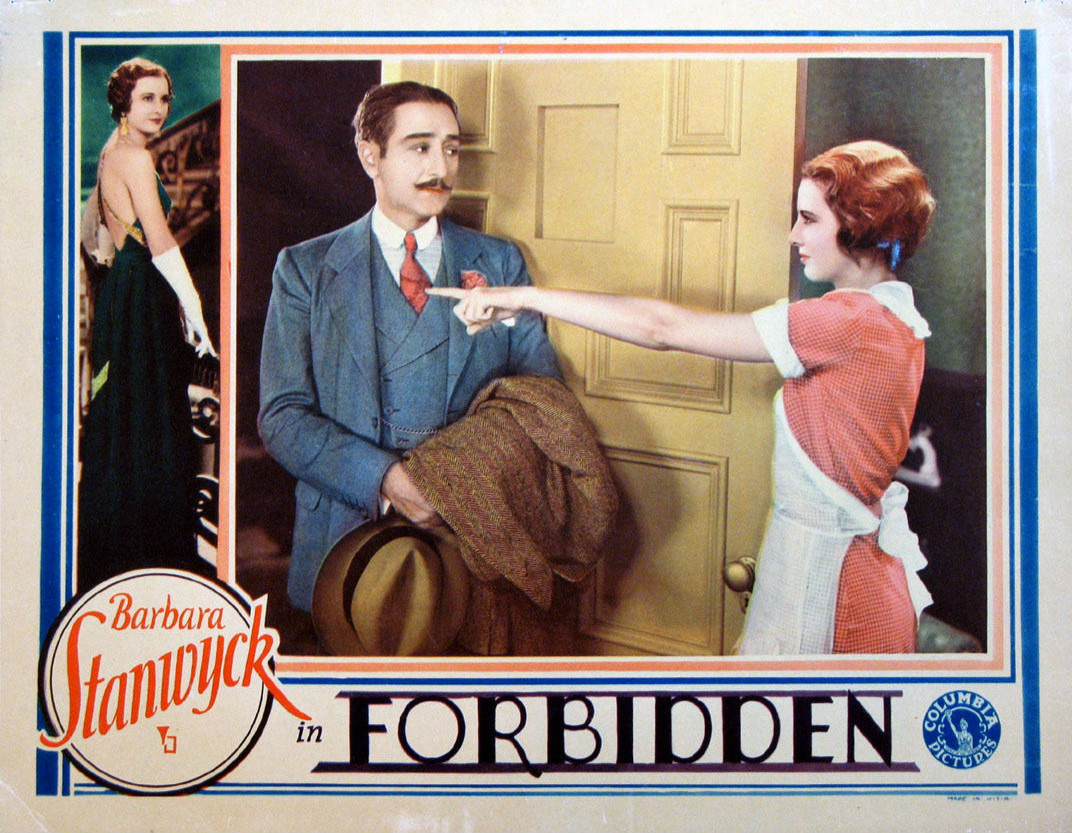 Lobby card for the film Forbidden (1932).